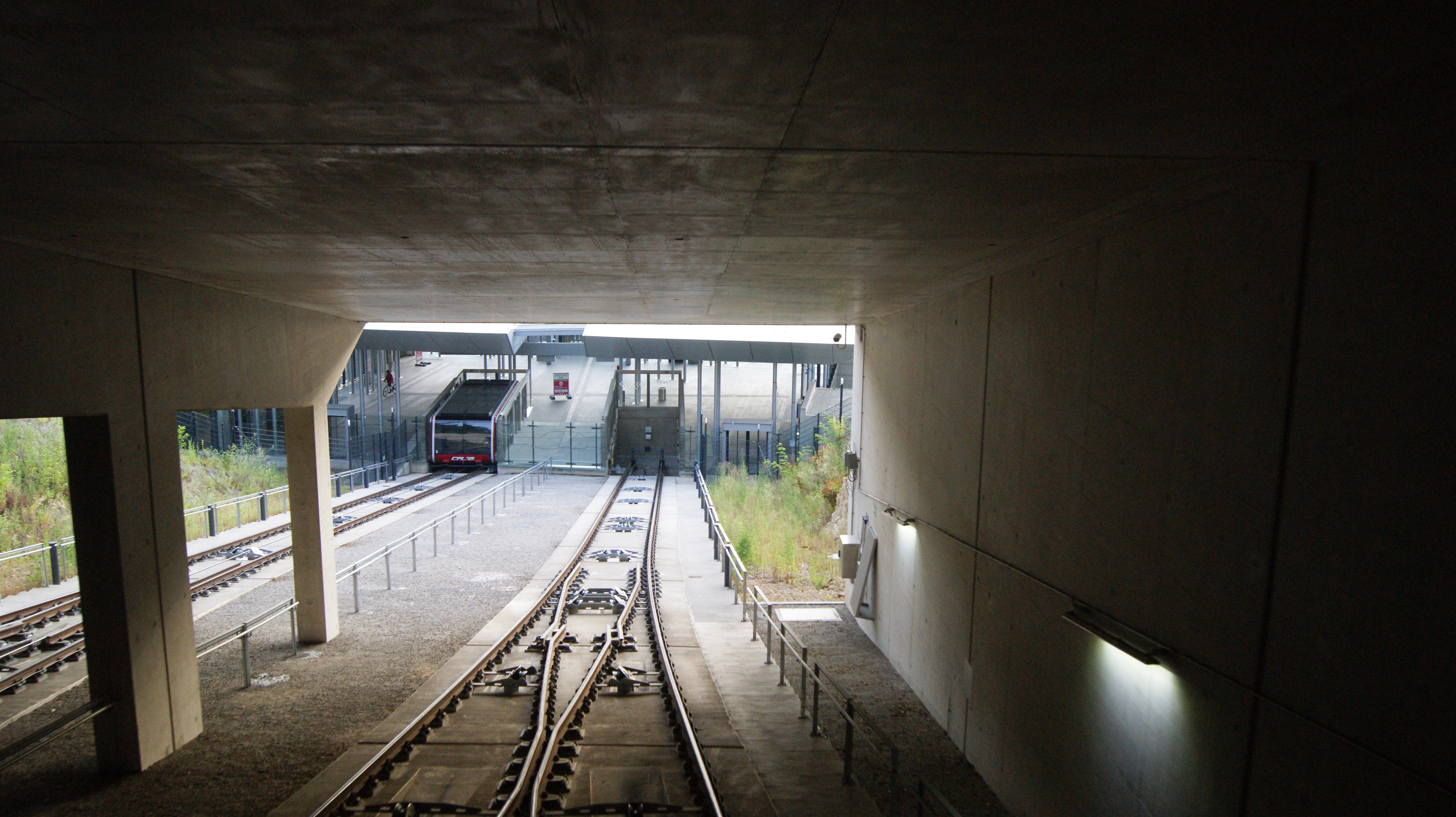 The funicular Pfaffenthal-Kirchberg is a funicular railway operating in Luxembourg, which was opened on 10 December 2017.